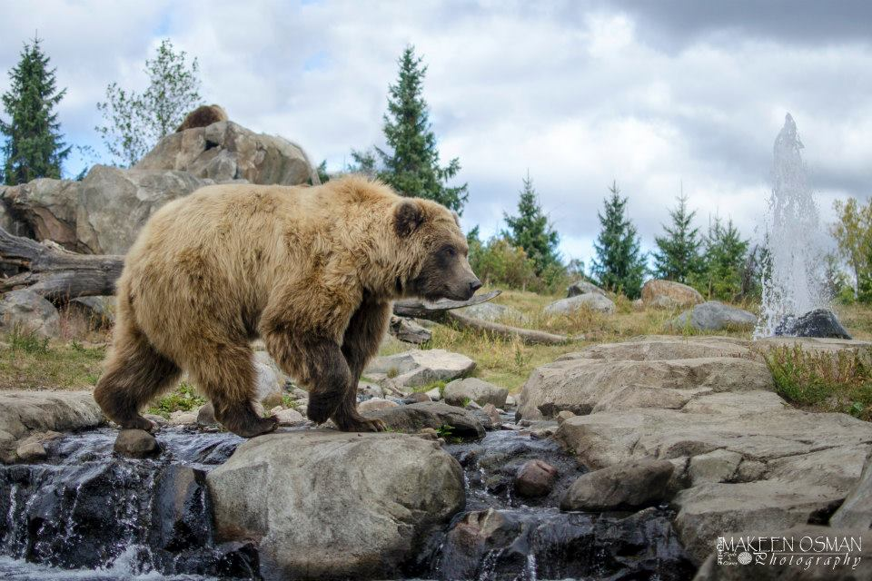 Brown Bear talking a stroll